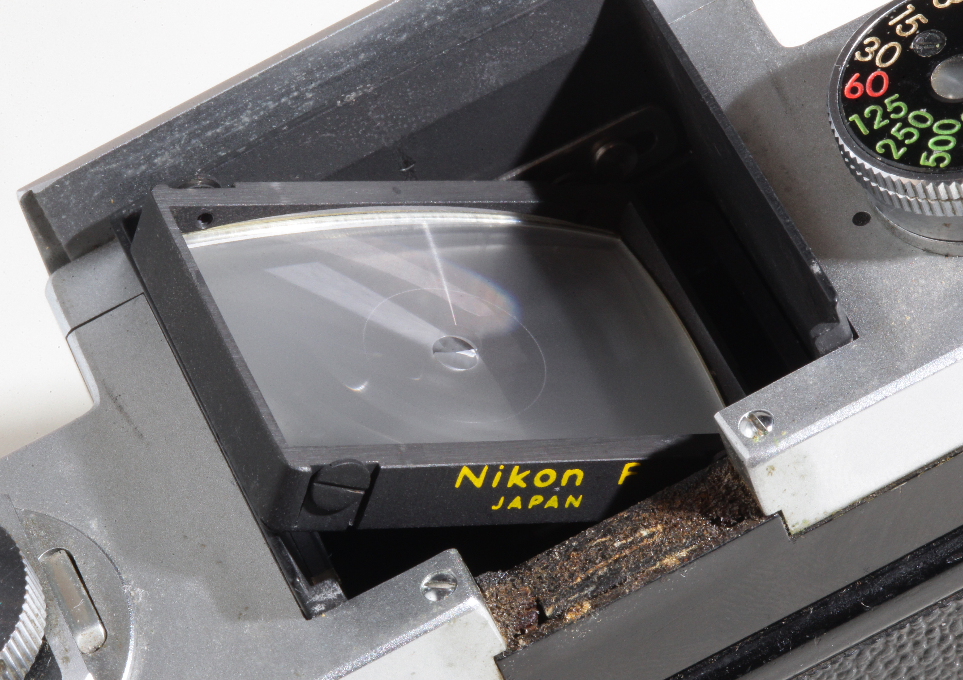 Nikon F focusing screen Type-A: matte Fresnel lens with Split-Image.